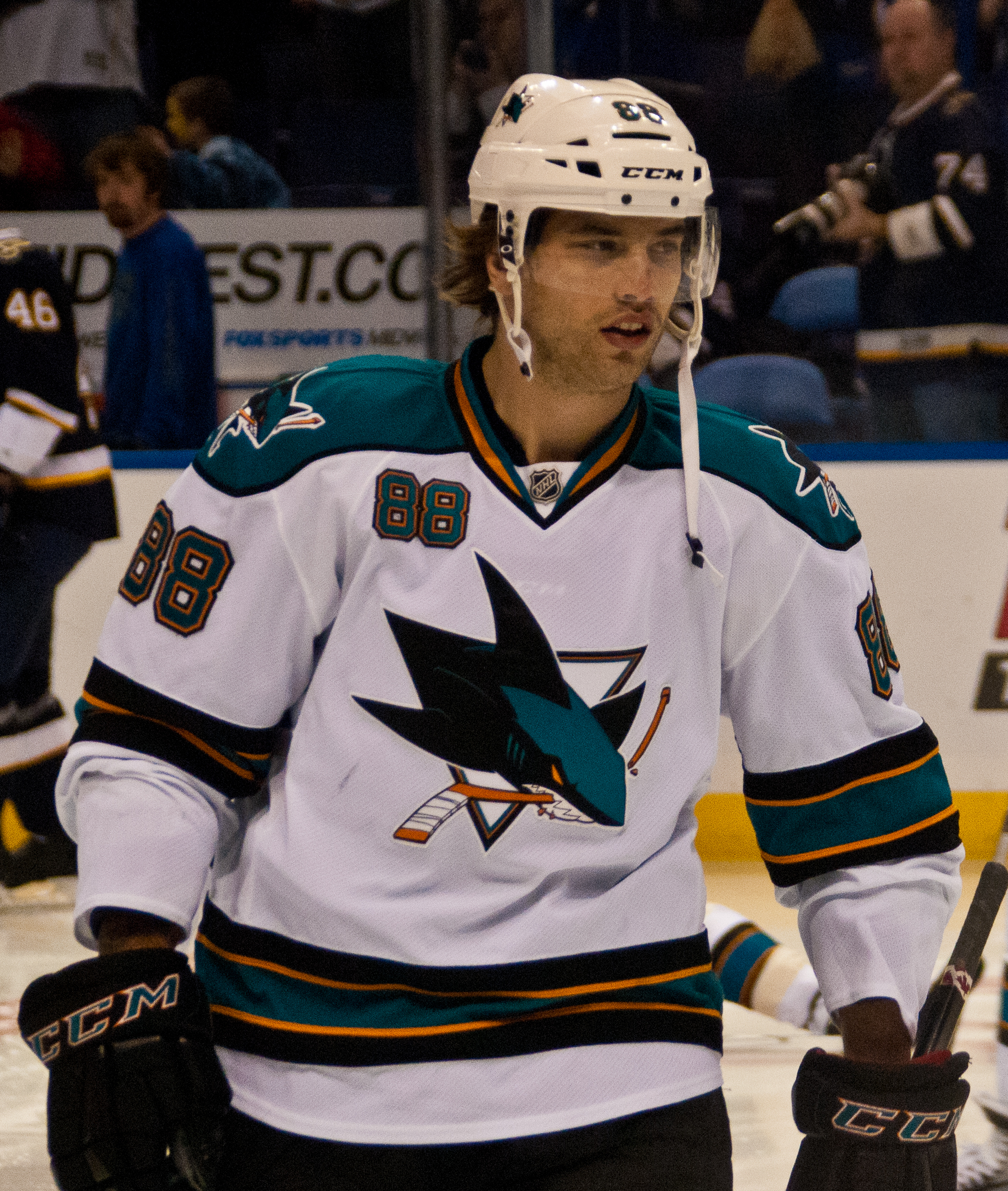 Brent Burns, Canadian ice hockey defenceman